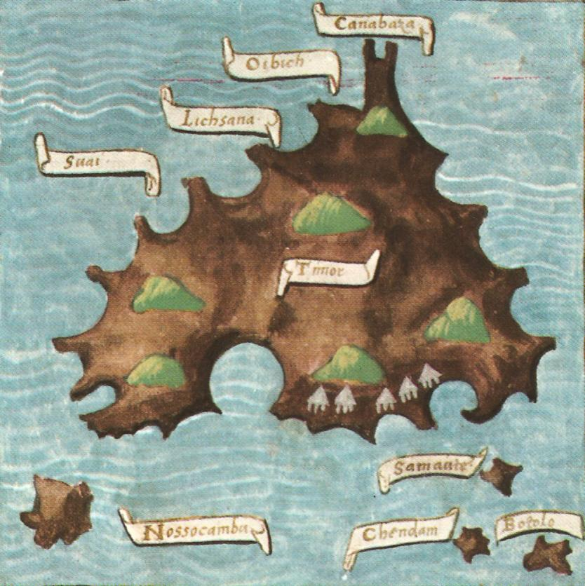 Old map of Timor on 1522 (manuscript of Antonio Pigafetta's journal)